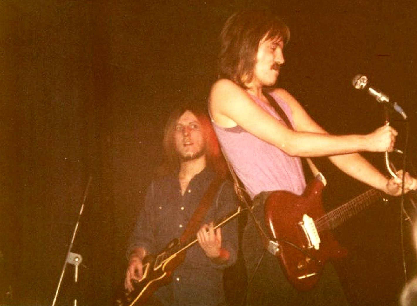 1972 - Humble Pie - Steve Marriott - Dave Clem Clempson This man had a lot of power. His version of I DON'T NEED NO DOCTOR - unbelievable! I think the man behind Steve is Dave Clem Clemson. He came from Collosseum for Peter Frampton.